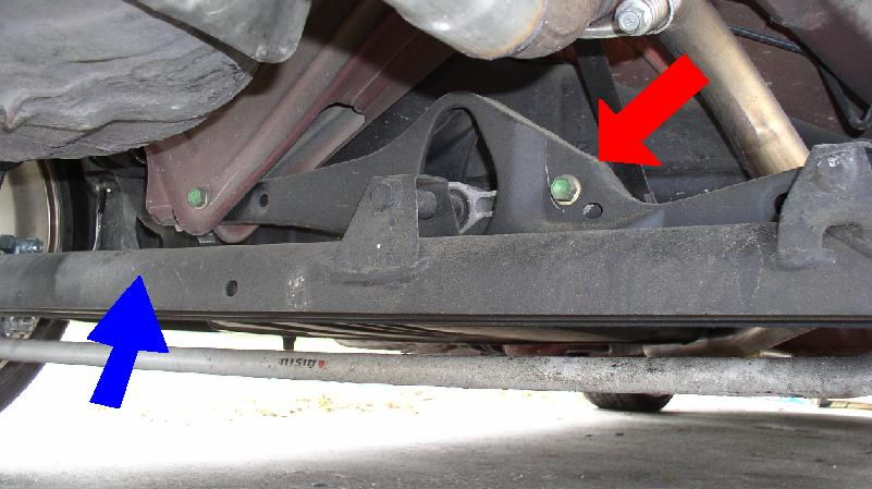 A Scott-Russell linkage used in a 2002 Nissan Sentra. The swing arm (red arrow) prevents side-to-side movement of the rear axle (blue arrow), while allowing it to travel up and down in almost a straight line.